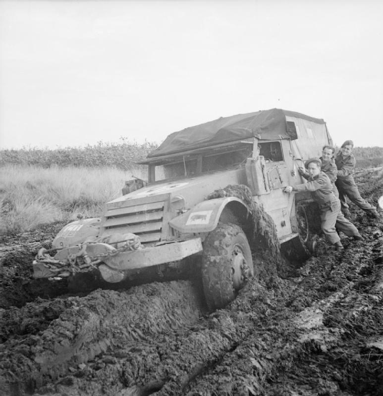 The British Army in North-west Europe 1944-45 A signals half-track of 11th Armoured Division stuck in the mud in Holland, 19 October 1944.